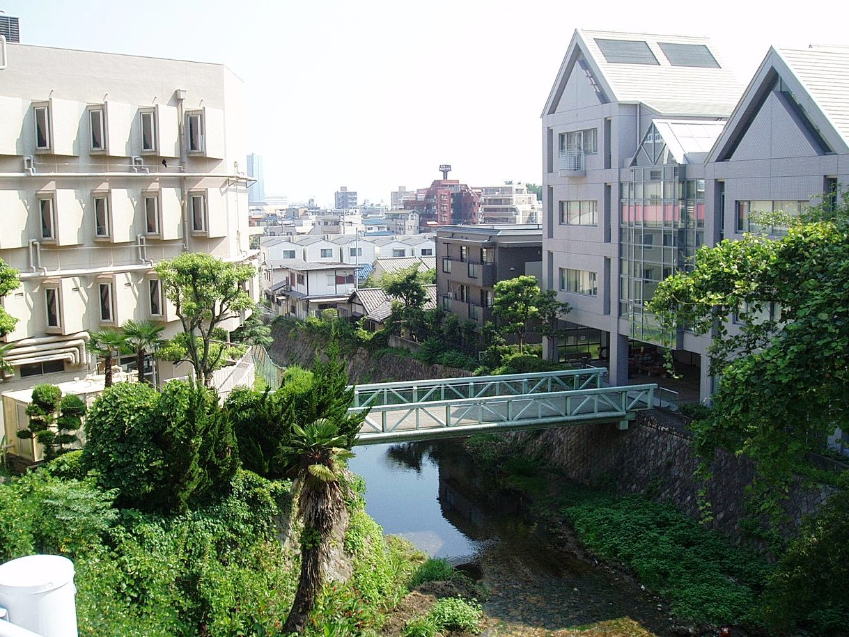 The bridge between Bldg. #5 (left) and #4 (right), Kobe Yamate University, located in Chuo-ku, Kobe, Hyogo, Japan.